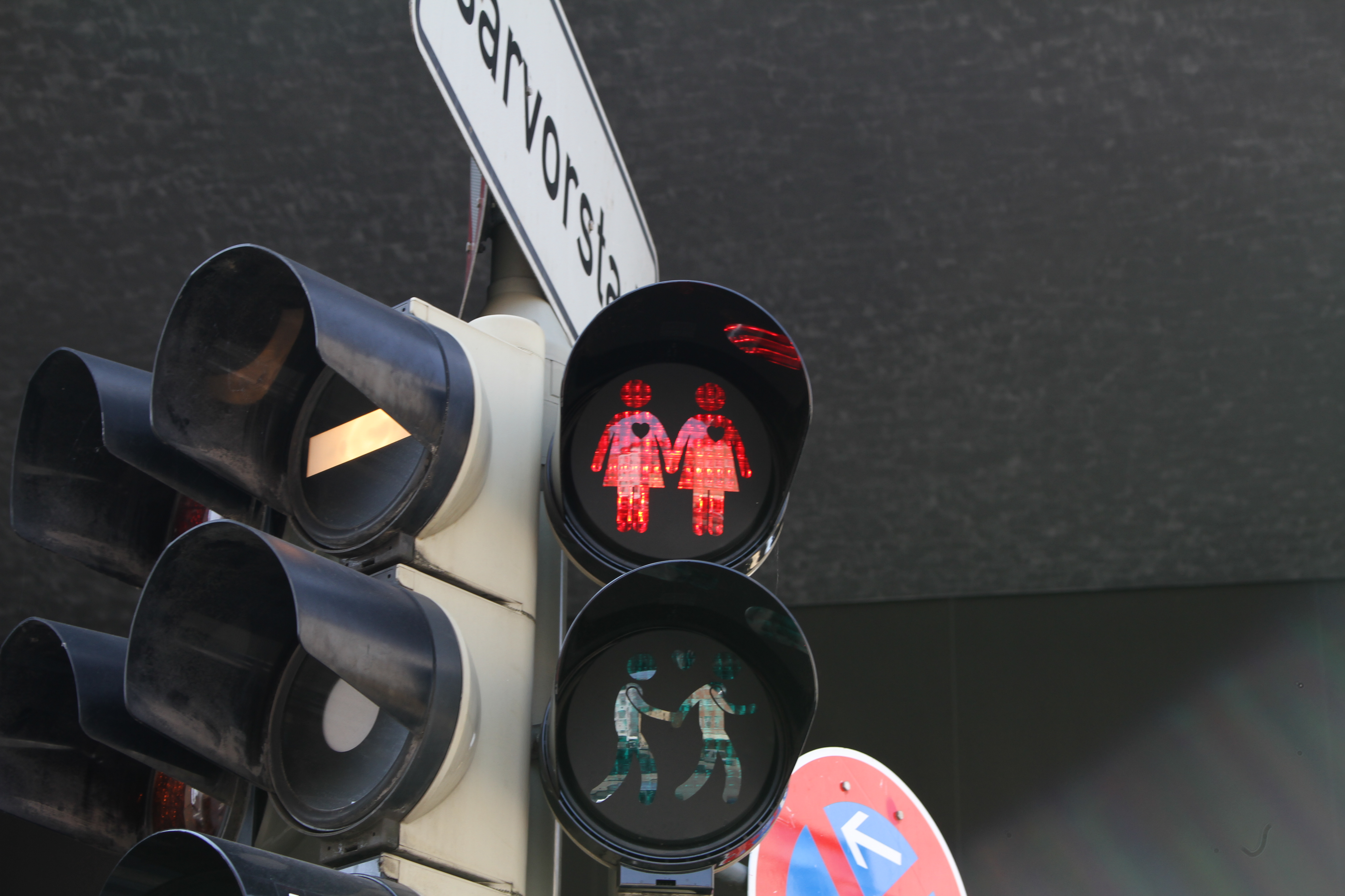 Munich, corner of Müllerstraße. Pedestrian signal of two females with love symbols at their hearts. These signals were installed before the Christopher Street Day 2015